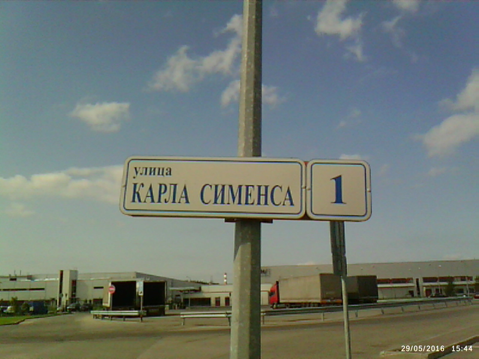 The street of Karl Siemens, Strel'na, St Petersburg